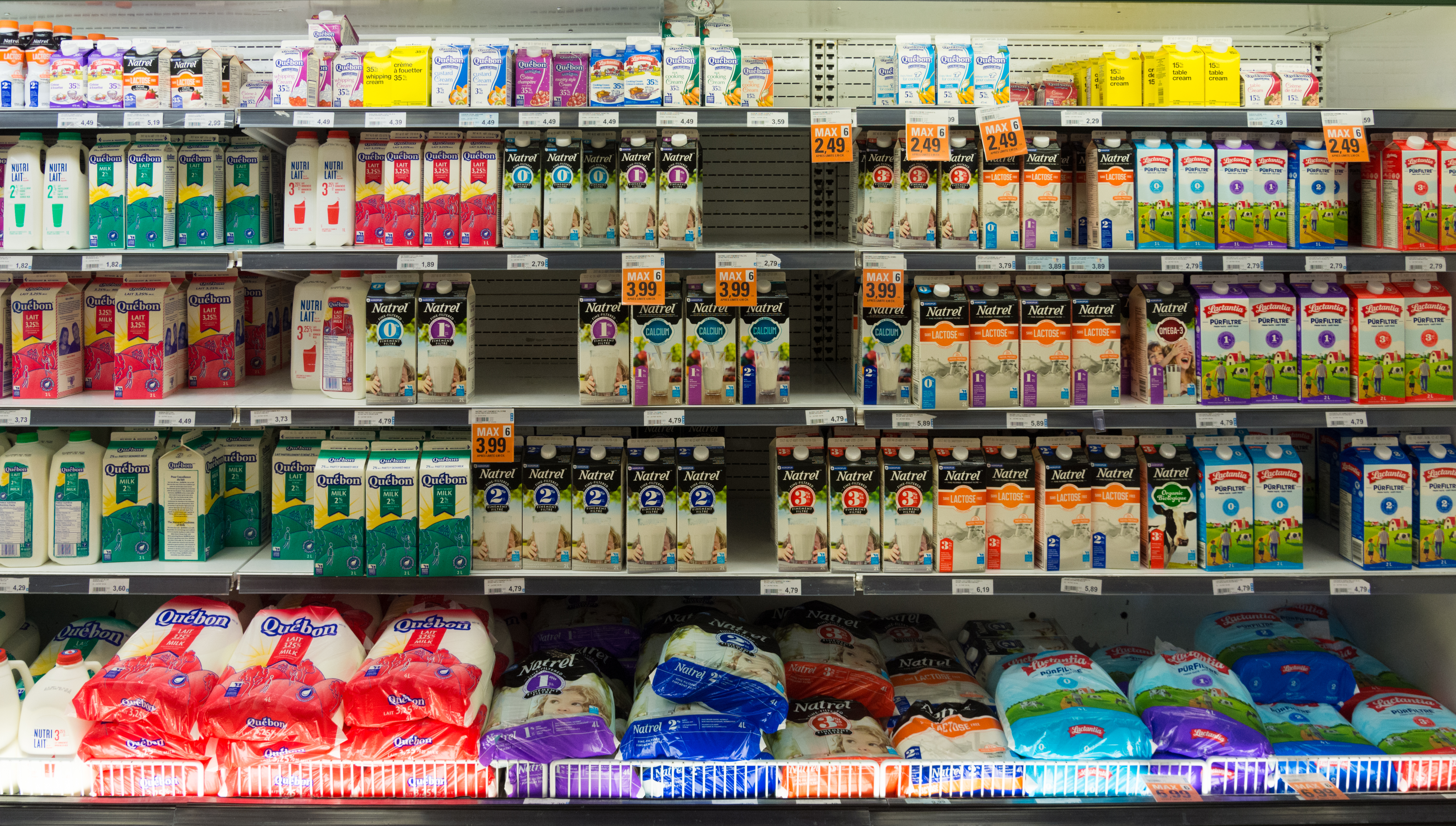 Quebec city